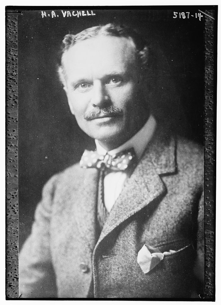 Horace Annesley Vachell circa 1920